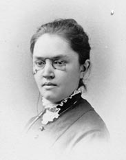 Photographic portrait of Katharine Lee Bates, author of "America the Beautiful". Image believed to be in Public Domain.